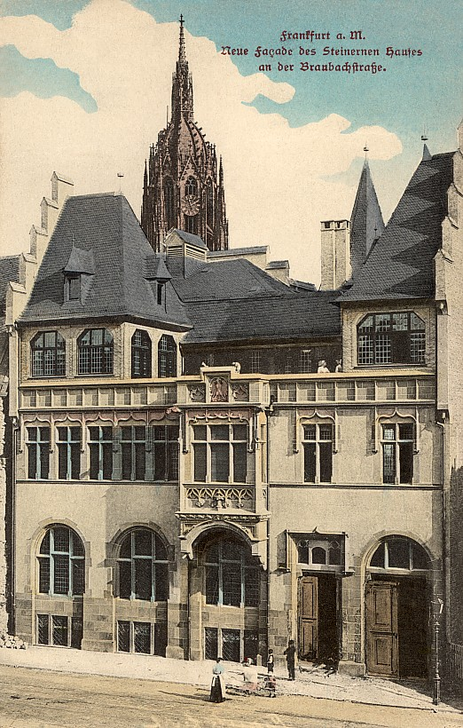 Frankfurt on the Main: Historicist facade of the Steinernes Haus (Stone House) at the Braubachstraße (Braubach street)